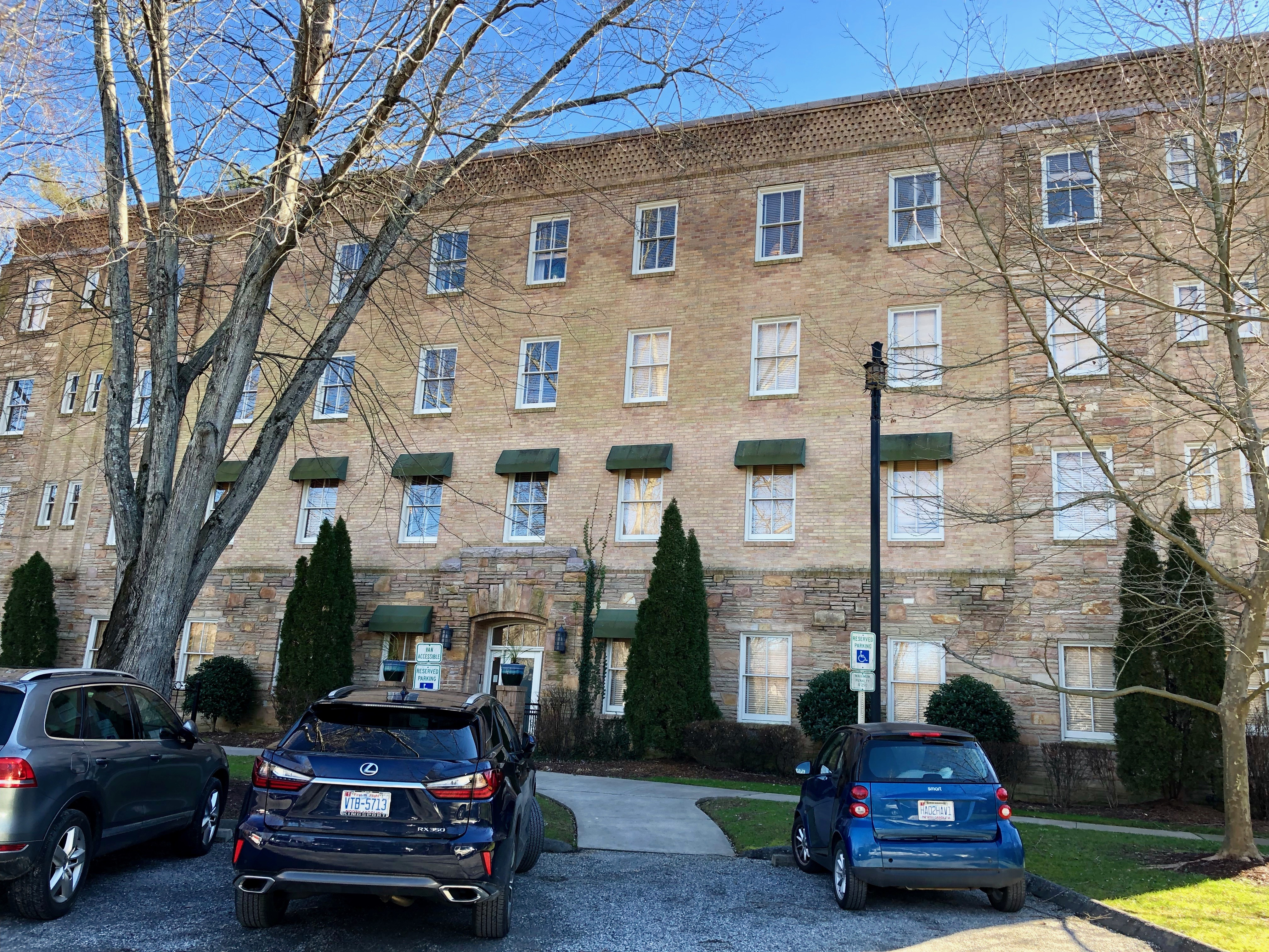 Battle Wing, Clarence Baker Memorial Hospital, Biltmore Village, NC